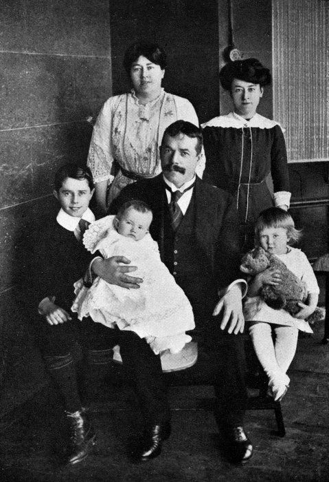 Benjamin John Fuller and Elizabeth Mary Fuller with their children, and Marguerita May Thomson, 1913